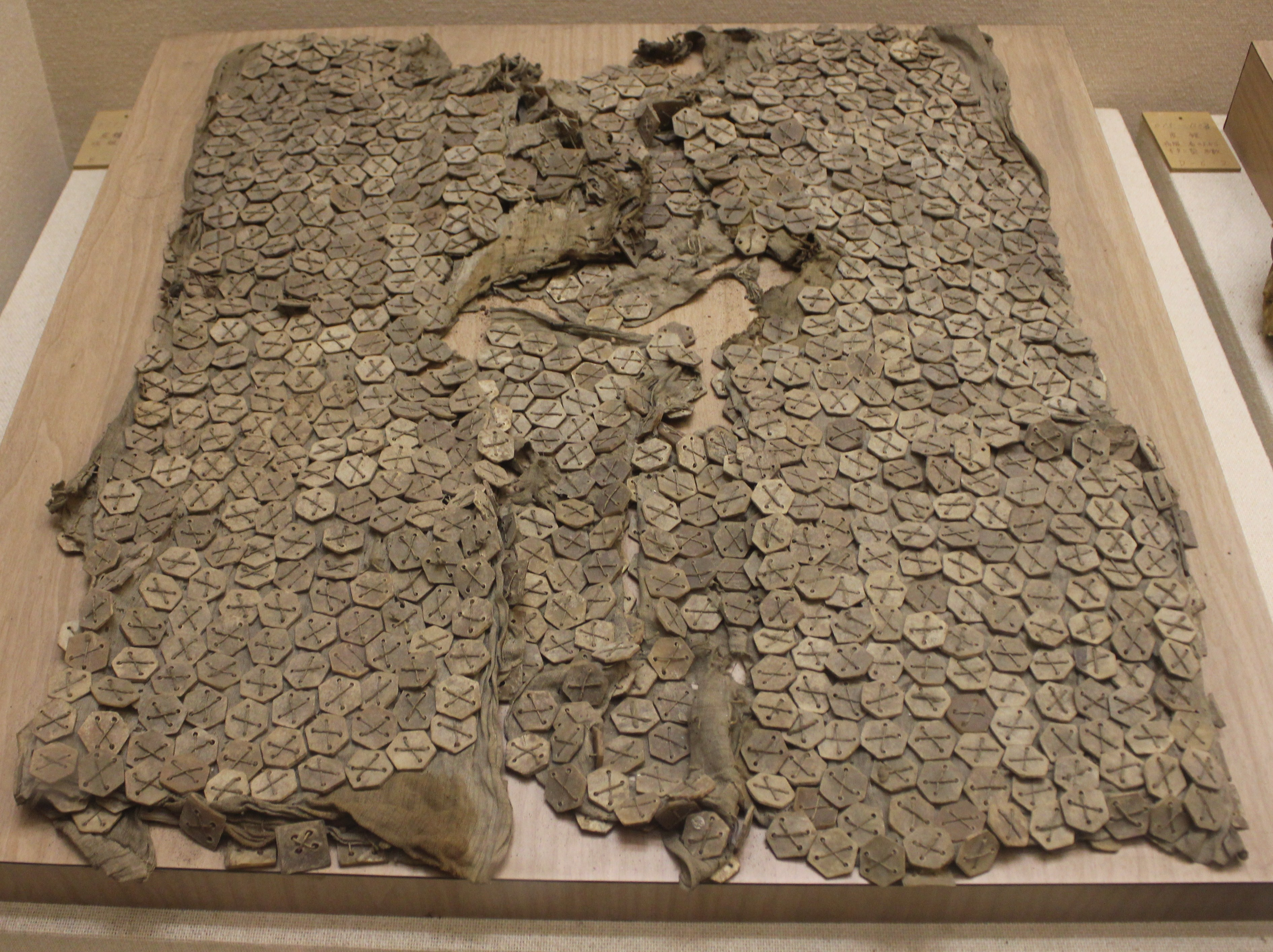 Clothing of a Mongolian army